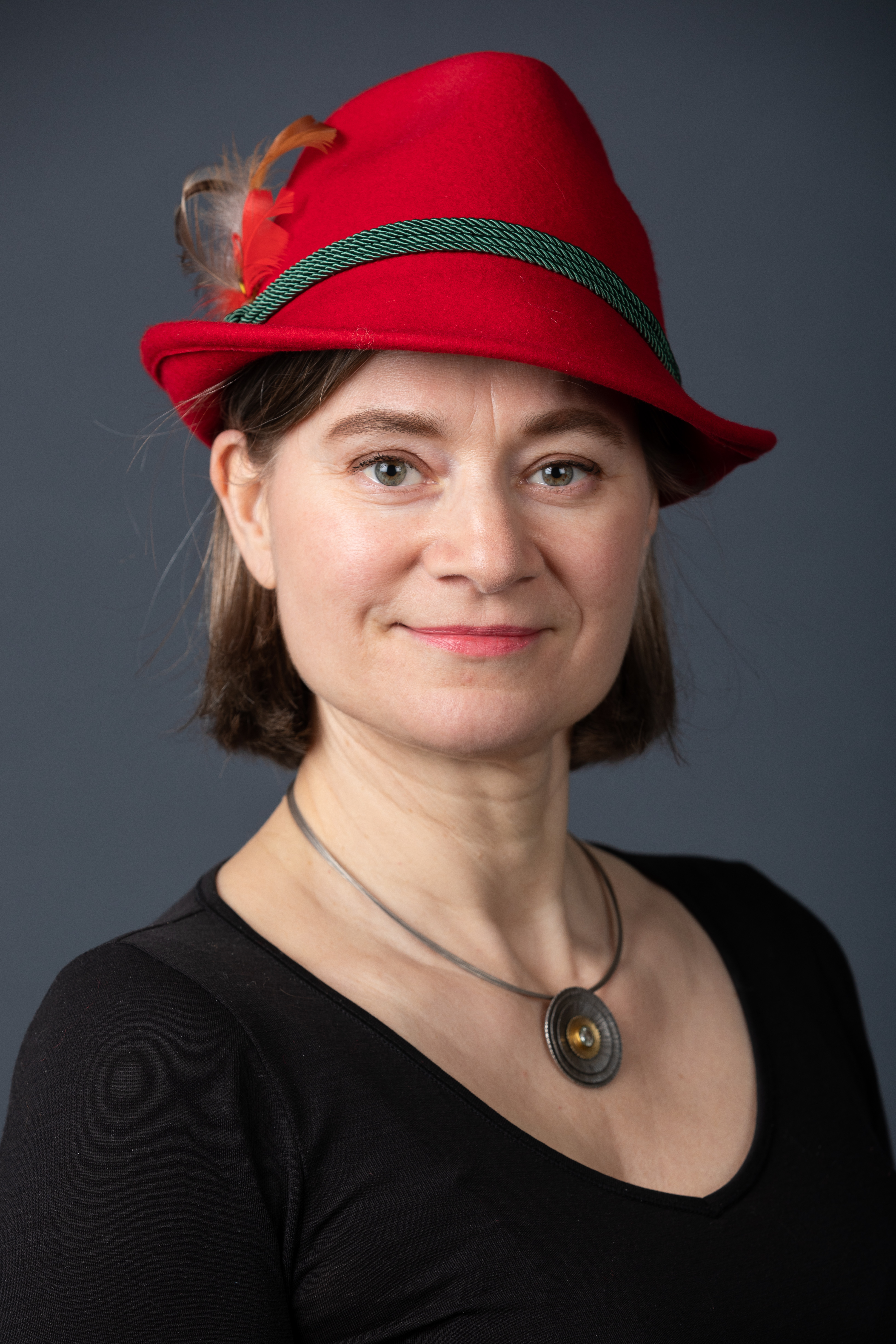 Anke Domscheit-Berg, Member of the German Bundestag, Berlin, Febuary 2020